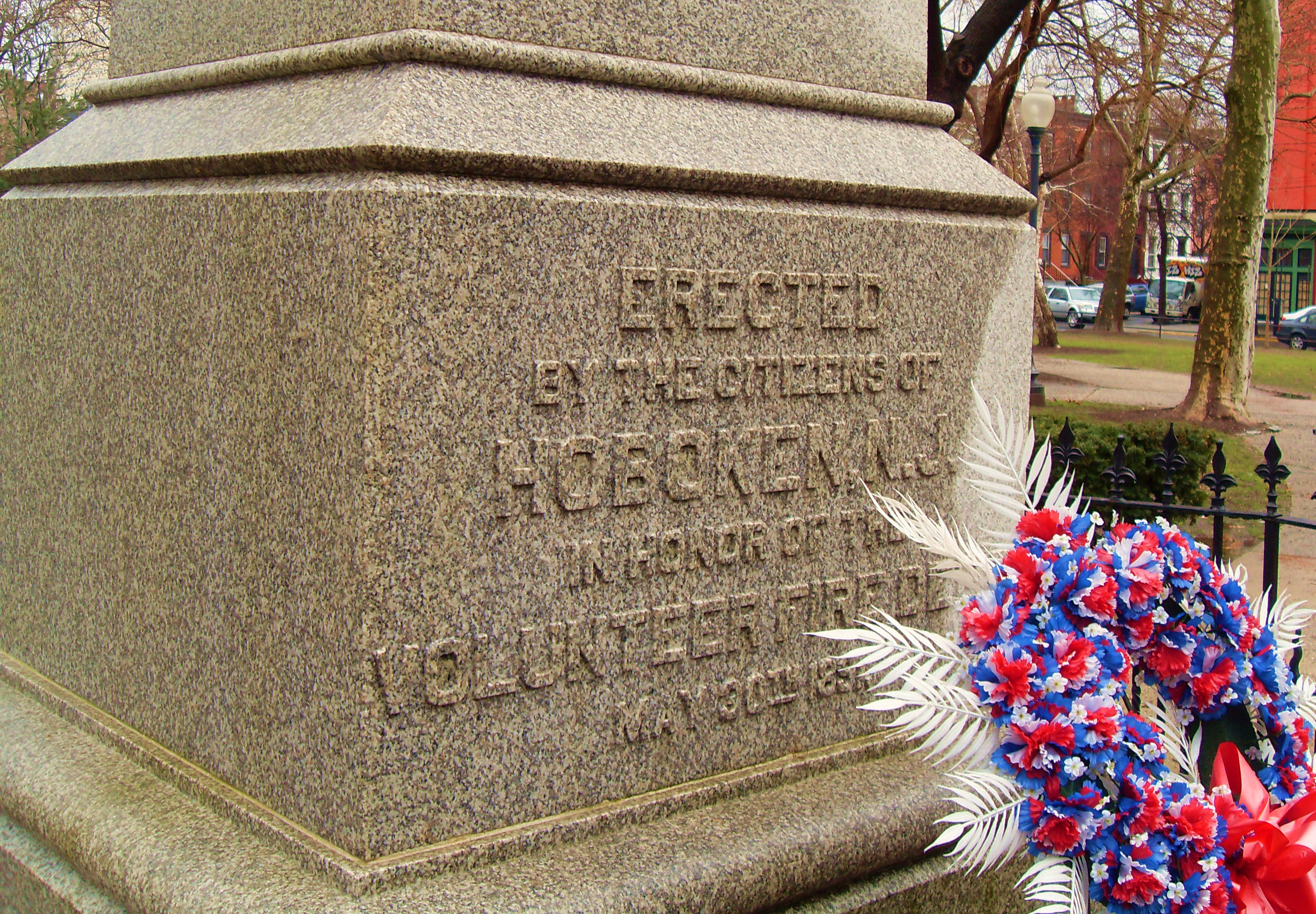 Used in article Firemen's Monument